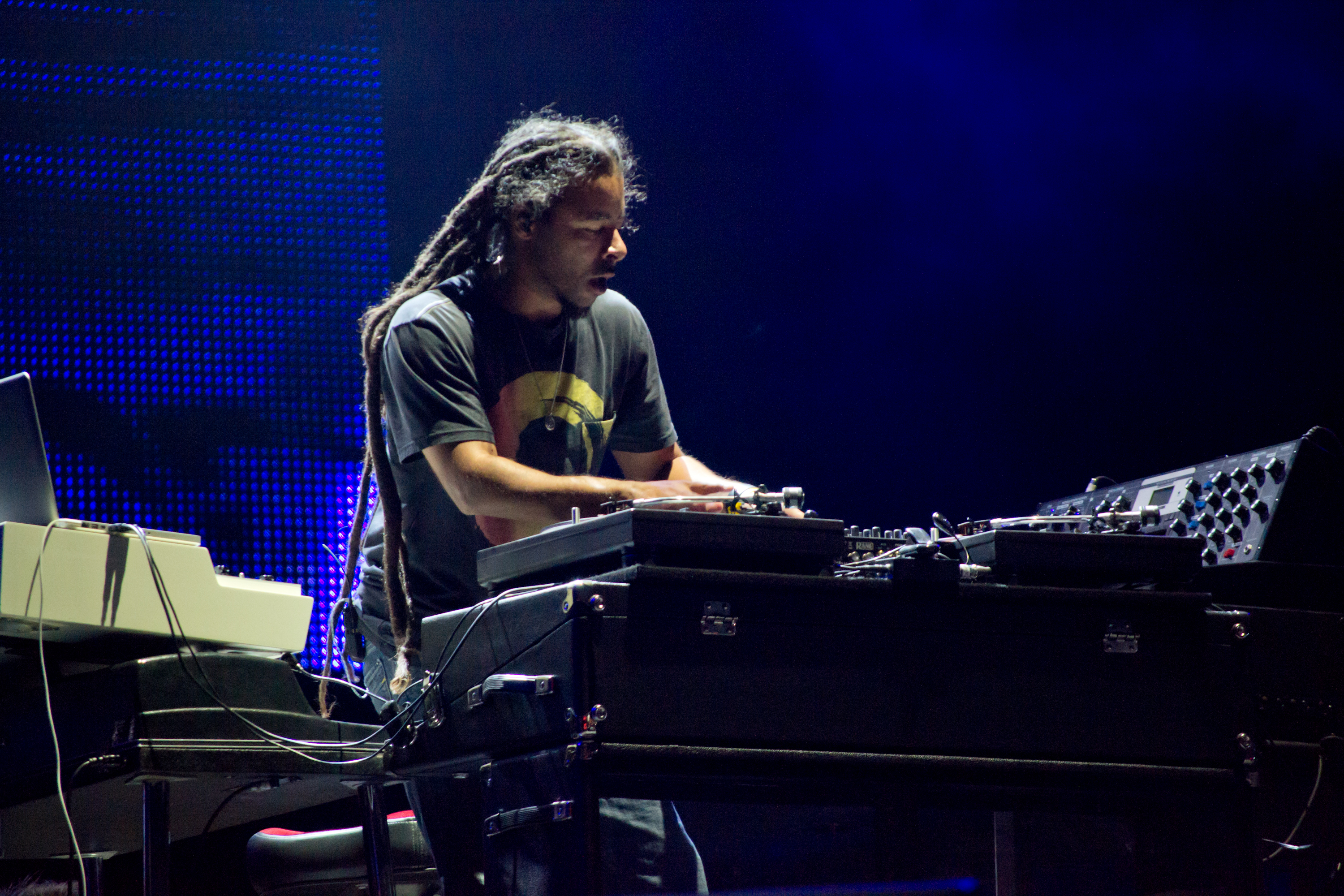 Incubus in Rock in Rio Madrid 2012.